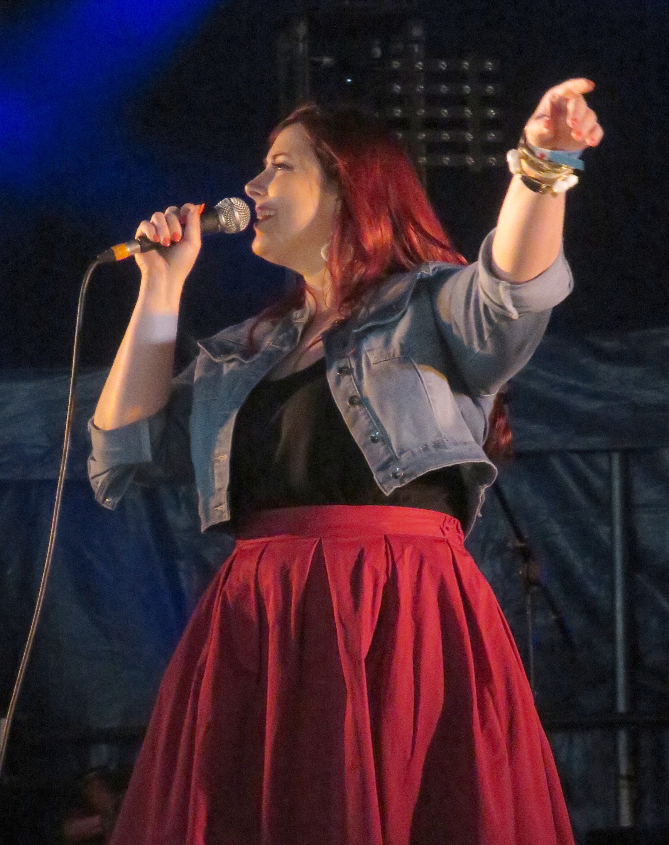 Jessica Clemmons performing with Jess & The Bandits in 2015